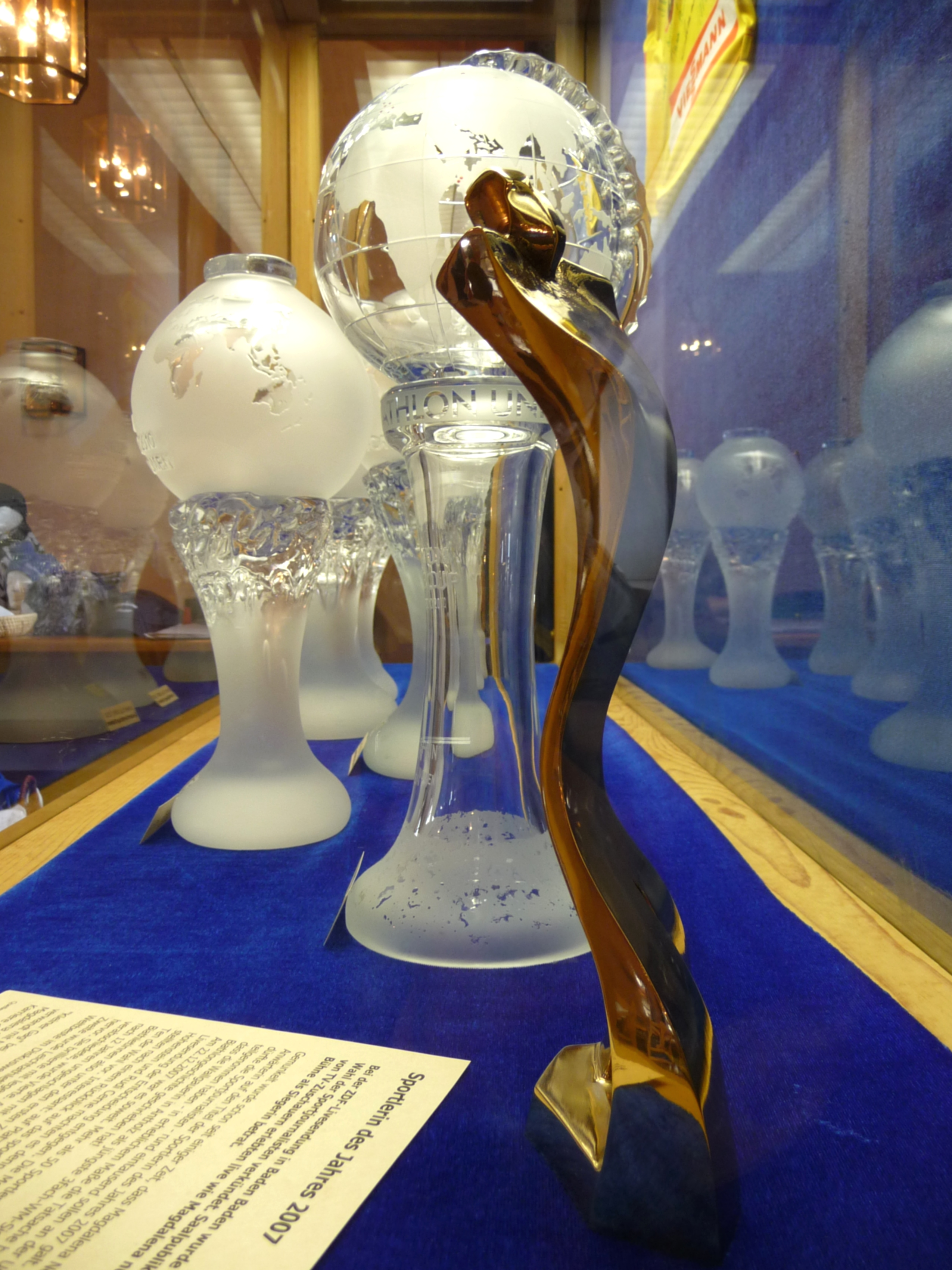 Trophies of biathlete Magdalena Neuner (Crystal Globes for overall and discipline World Cups, 2007 German Sportswoman of the Year award in the front), temporarily for display at town hall, Wallgau, Germany